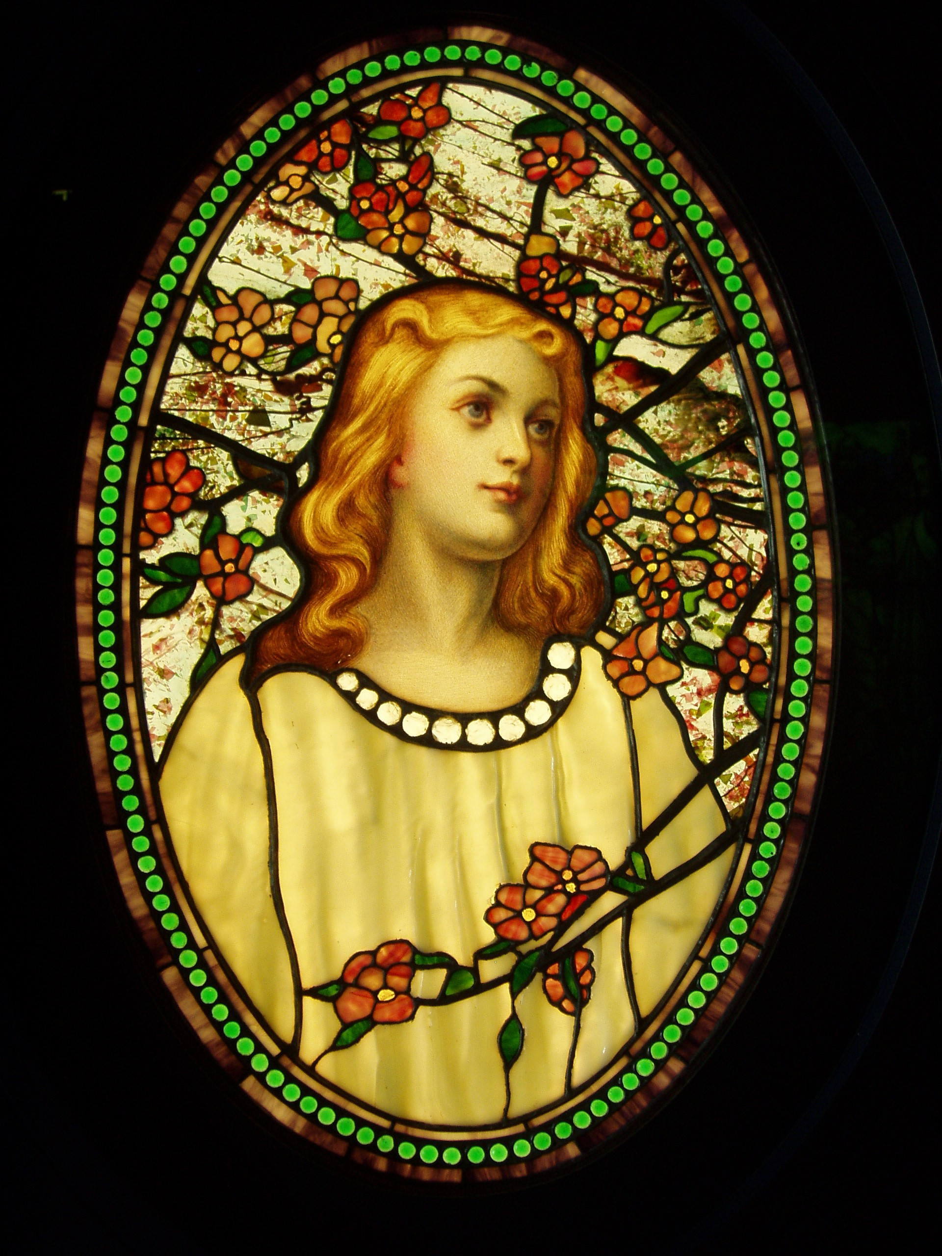 Girl with Cherry Blossoms - Tiffany Glass & Decorating Company, c. 1890.